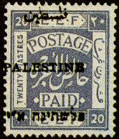 Egyptian Expeditionary Force stamp. 1920 1st local ovpt 20p grey.